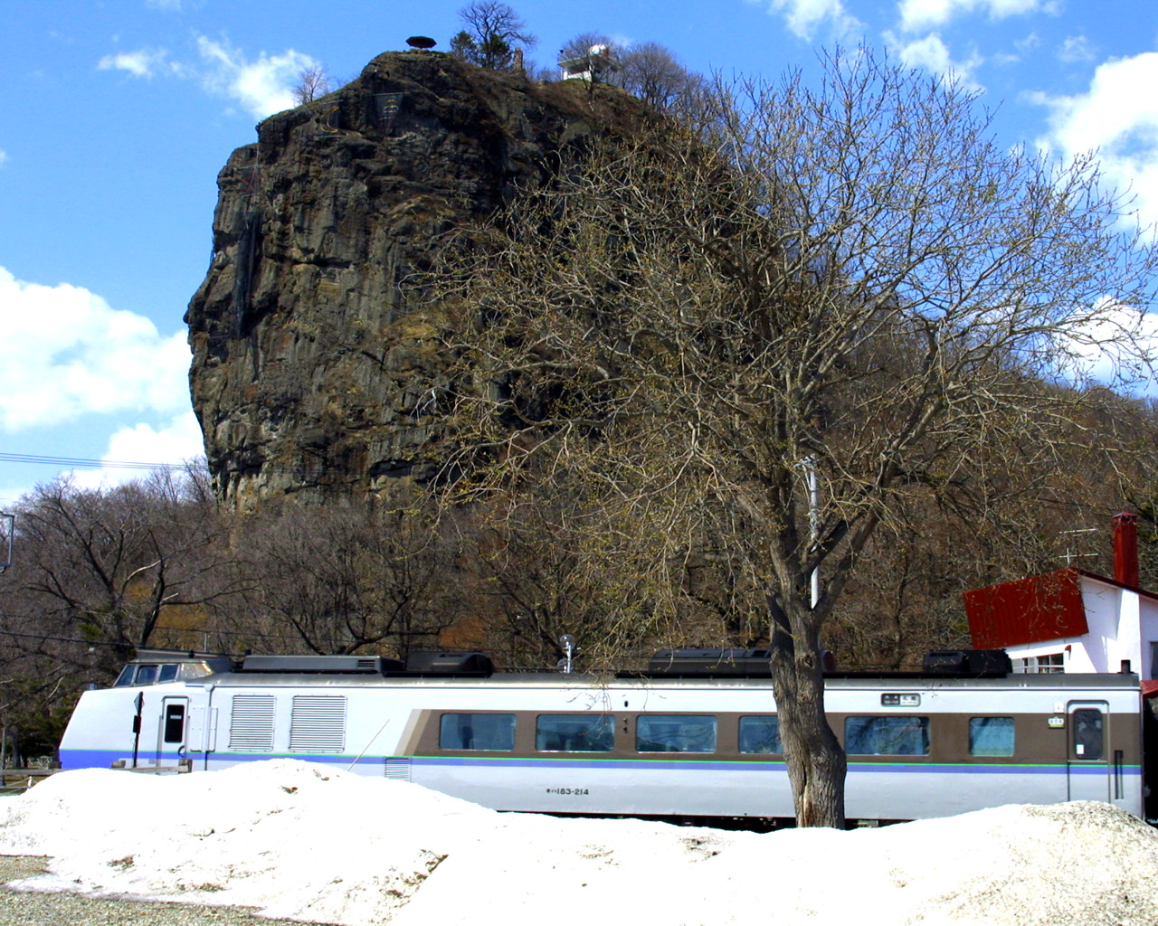 Limited express train with Ganbō iwa, Engaru Town, Hokkaido, on 26 April 2004